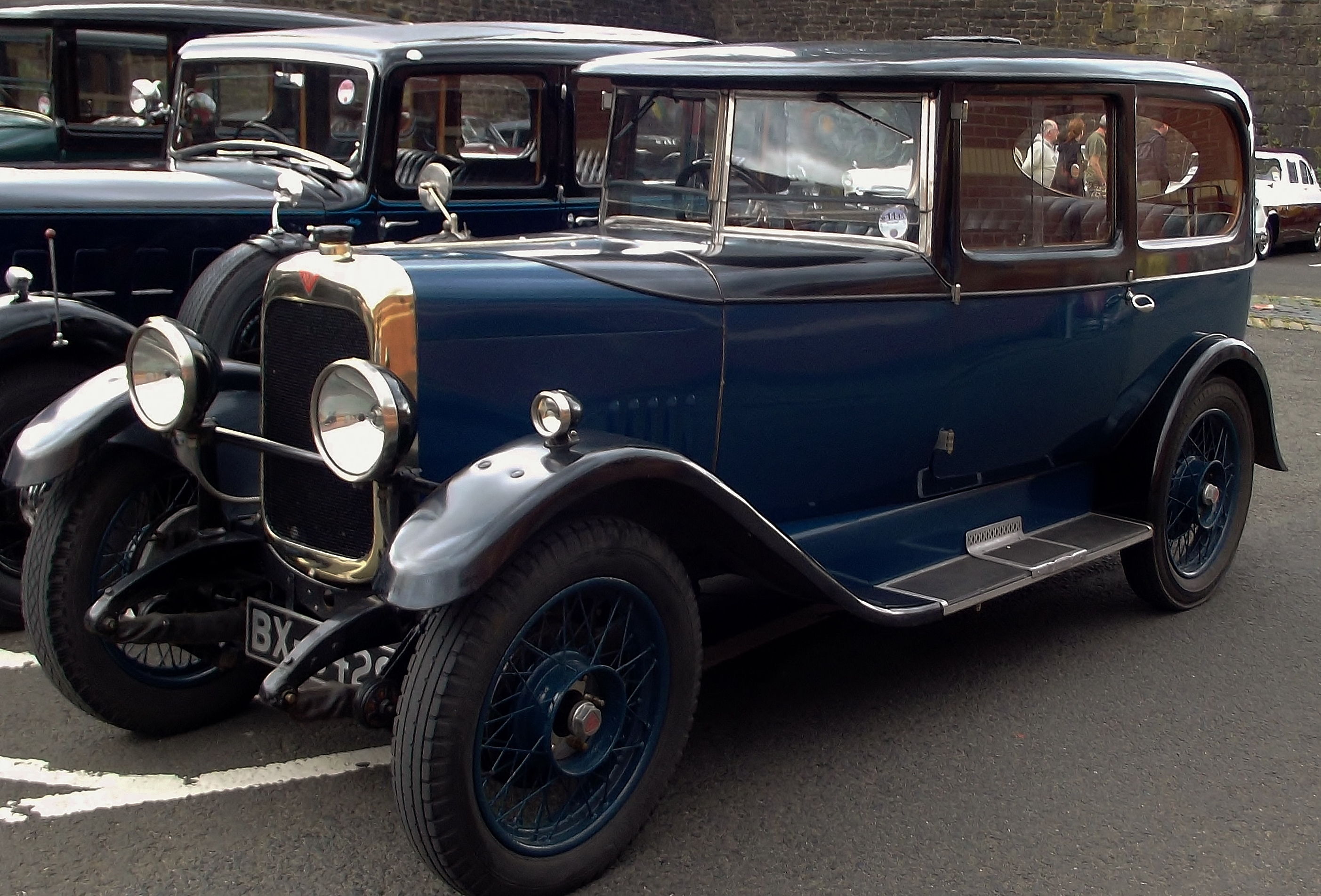 Alvis 12-50 Sportsman's saloon East Lancashire Railway Vintage Car event 2013 this event is getting bigger every year.